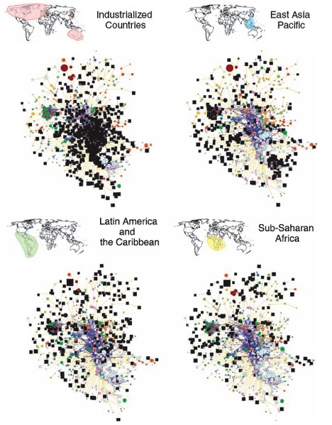 Localization of the productive structure for different regions of the world, based on the Product Space dynamics.